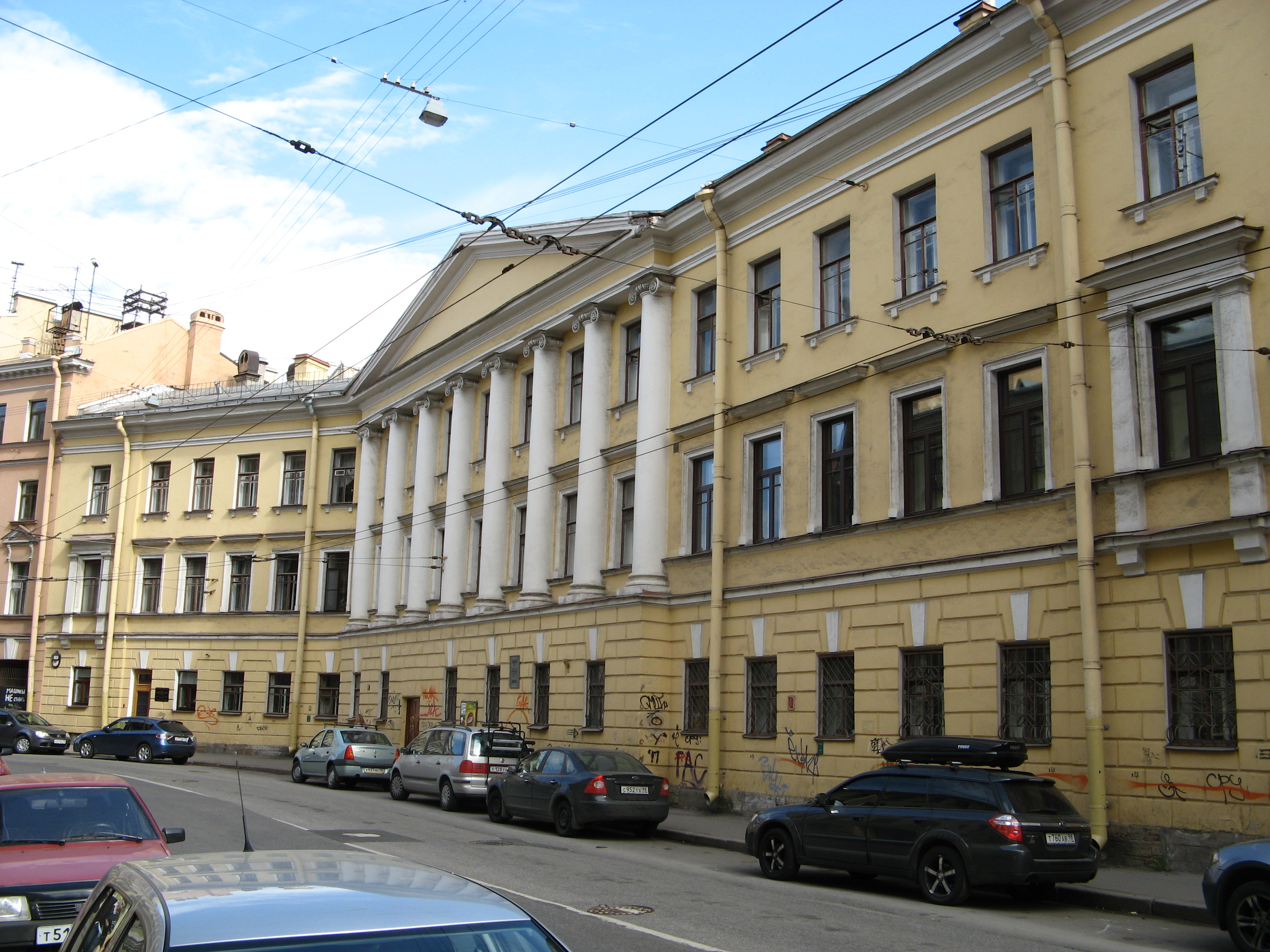 Kazanskaj street, 18 (Saint-Petersburg)